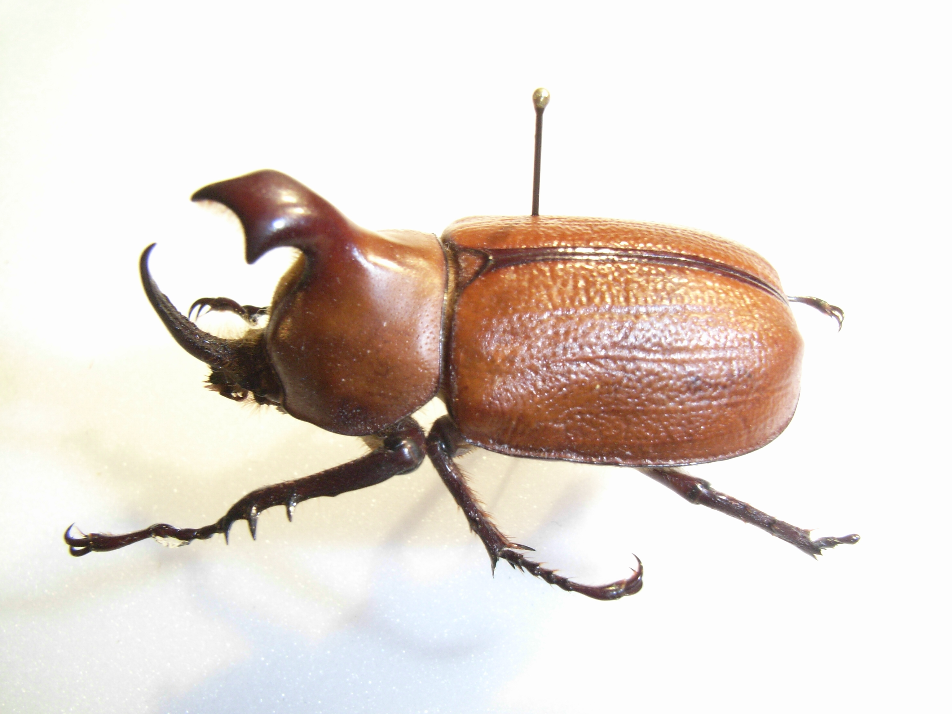 Golofa claviger from Peru